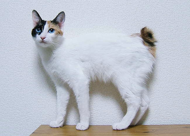 Blue eyed Female Japanese Bobtail